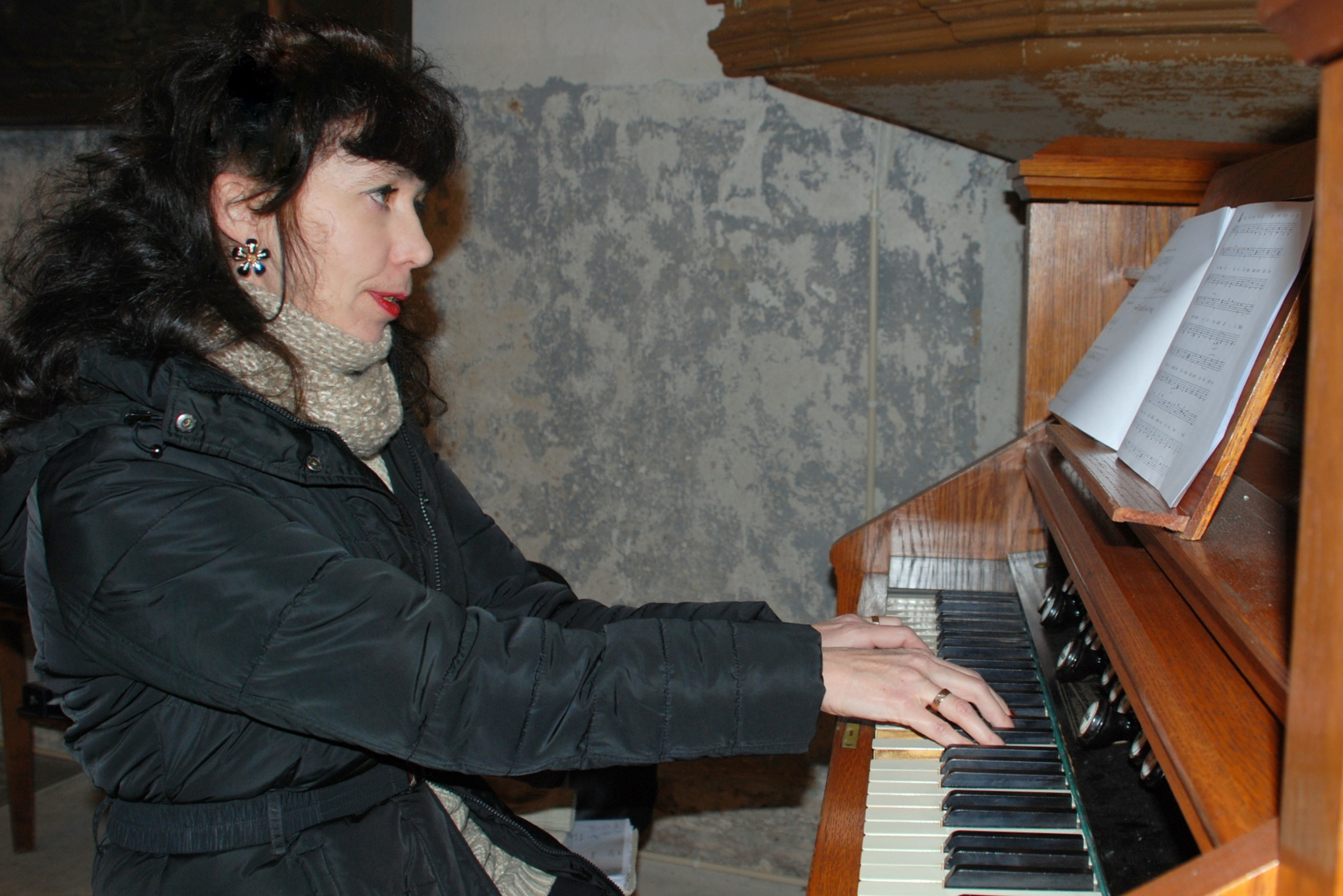 Photo